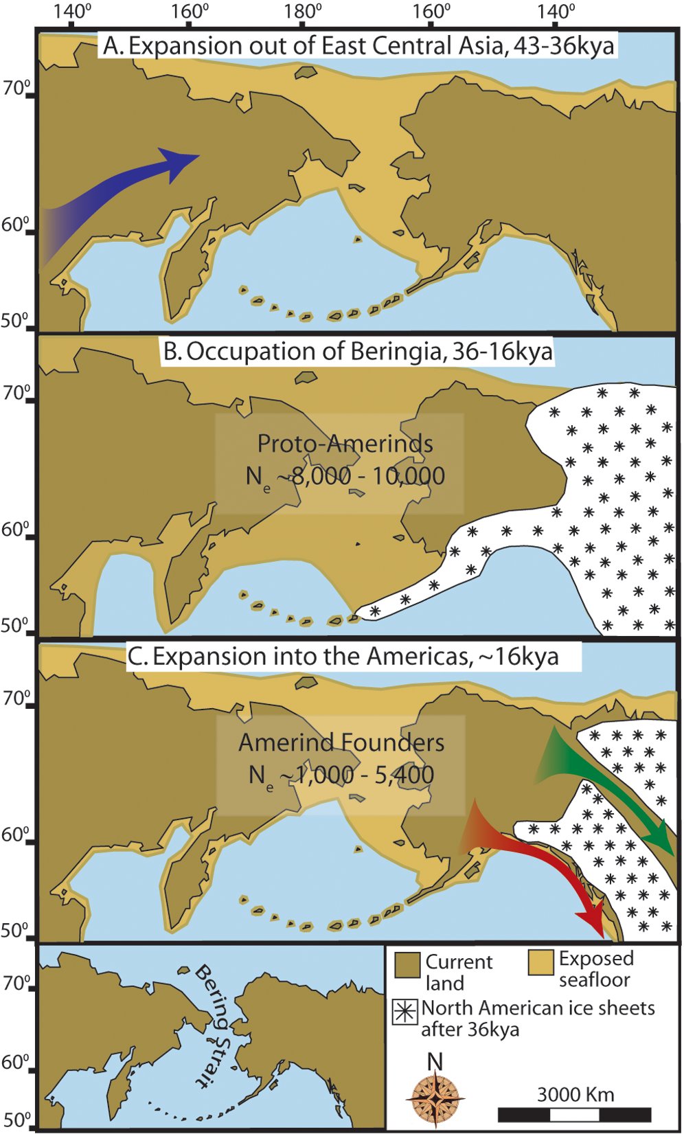 Maps depicting each phase of our three-step colonization model for the peopling of the Americas. (A) Divergence, then gradual population expansion of the Amerind ancestors from their East Central Asian gene pool (blue arrow). (B) Proto-Amerind occupation of Beringia with little to no population growth for ~20,000 years. (C) Rapid colonization of the New World by a founder group migrating southward through the ice free, inland corridor between the eastern Laurentide and western Cordilleran Ice Sheets (green arrow) and/or along the Pacific coast (red arrow). In (B), the exposed seafloor is shown at its greatest extent during the last glacial maximum at ~20–18 kya [25]. In (A) and (C), the exposed seafloor is depicted at ~40 kya and ~16 kya, when prehistoric sea levels were comparable [24], [25]. Because of the earth's curvature, the km scale (which is based on the straight line distance at the equator) provides only an approximation of the same distance between two points on these maps. In addition, a scaled-down version of Beringia today (60% reduction of A–C) is presented in the lower left corner. This smaller map highlights the Bering Strait that has geographically separated the New World from Asia since ~11–10 kya.